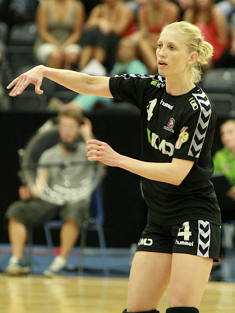 Louise Mortensen from Aalborg DH.